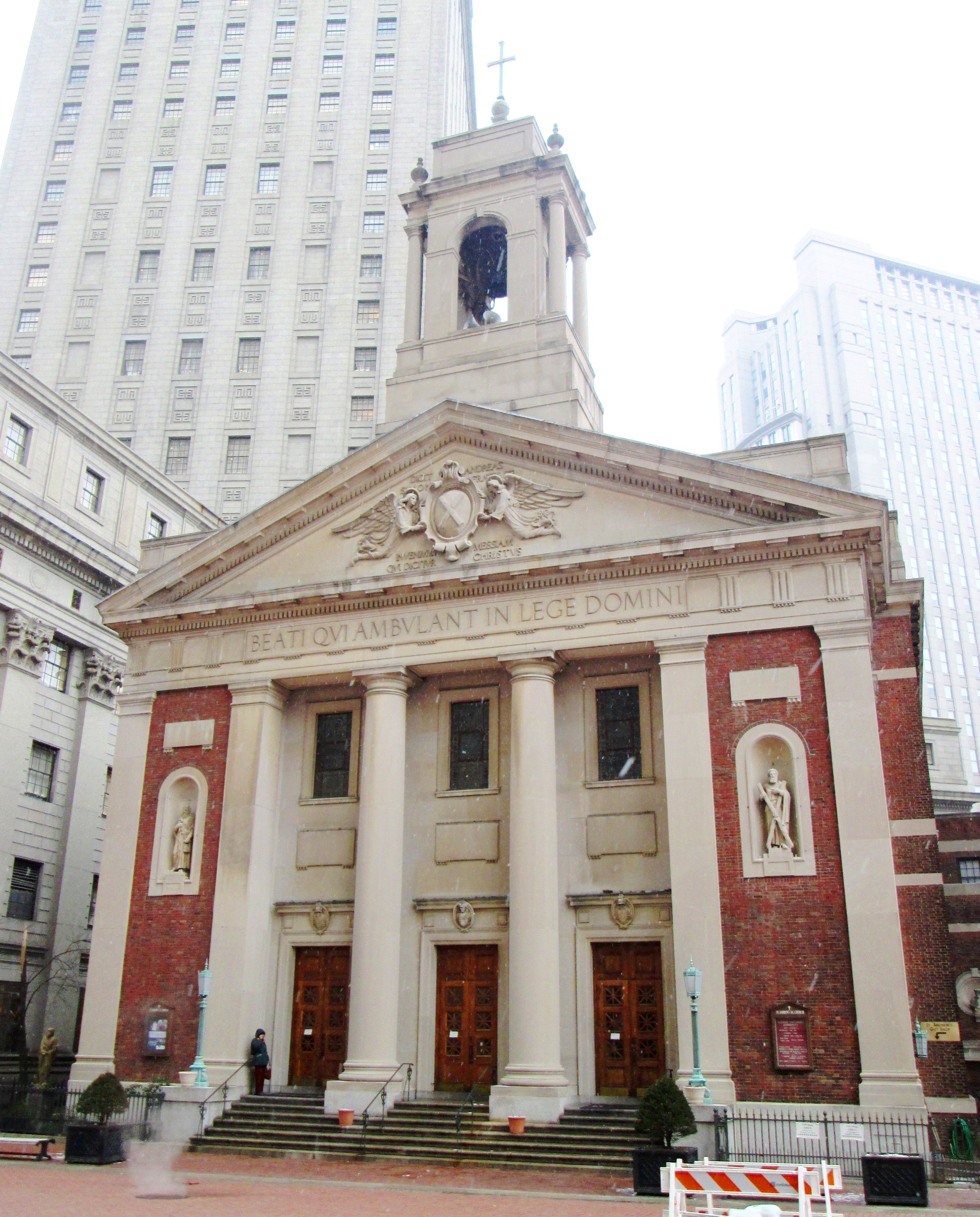 St. Andrew's Roman Catholic Church at 27 Duane Street, also known as St. Andrew's Plaza and more recently as Cardinal Hayes Place, off of Foley Square in the Civic Center district of Manhattan, New York City was dedicated in 1939, and was designed by Maginnis & Walsh and Robert J. Reiley. It replaced an earlier church on the same site. The inscription under the pediment ("BEATI QUI AMBULANT IN LEGE DOMINI") means "Blessed are they who walk in the law of the Lord." (Source: From Abyssinian to Zion (2004))